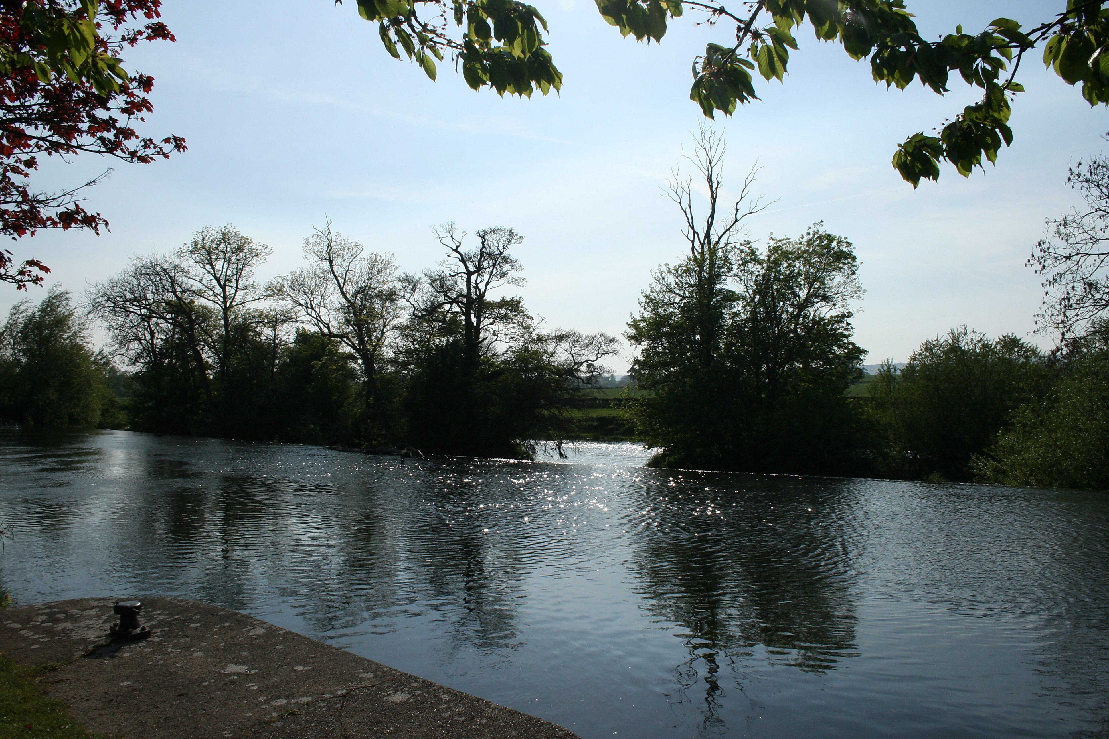 The River Barrow at Leighlinbridge, County Carlow